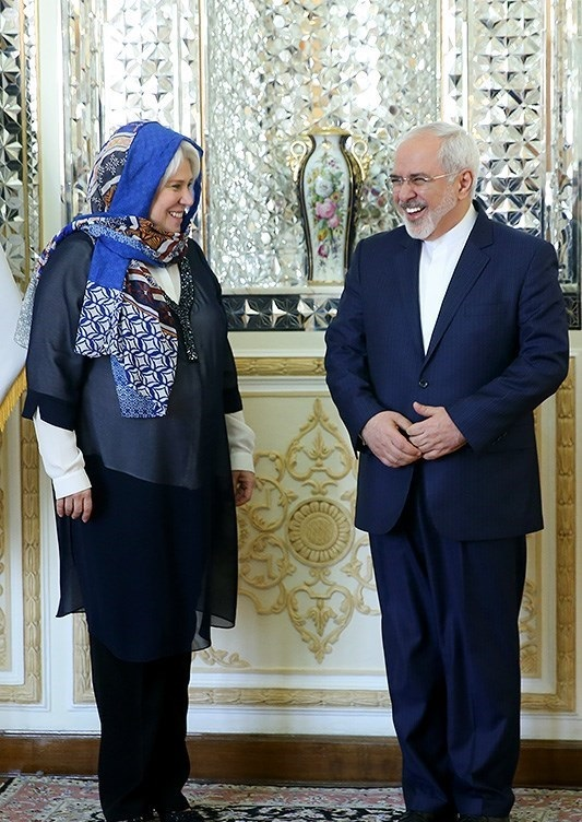 Iranian Foreign Minister, Mohammad Javad Zarif meets with Estonian Foreign Minister Marina Kaljurand